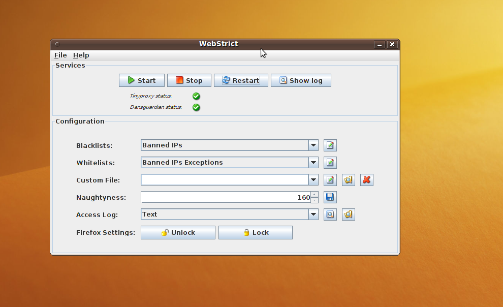 WebStrict GUI to DansGuardian